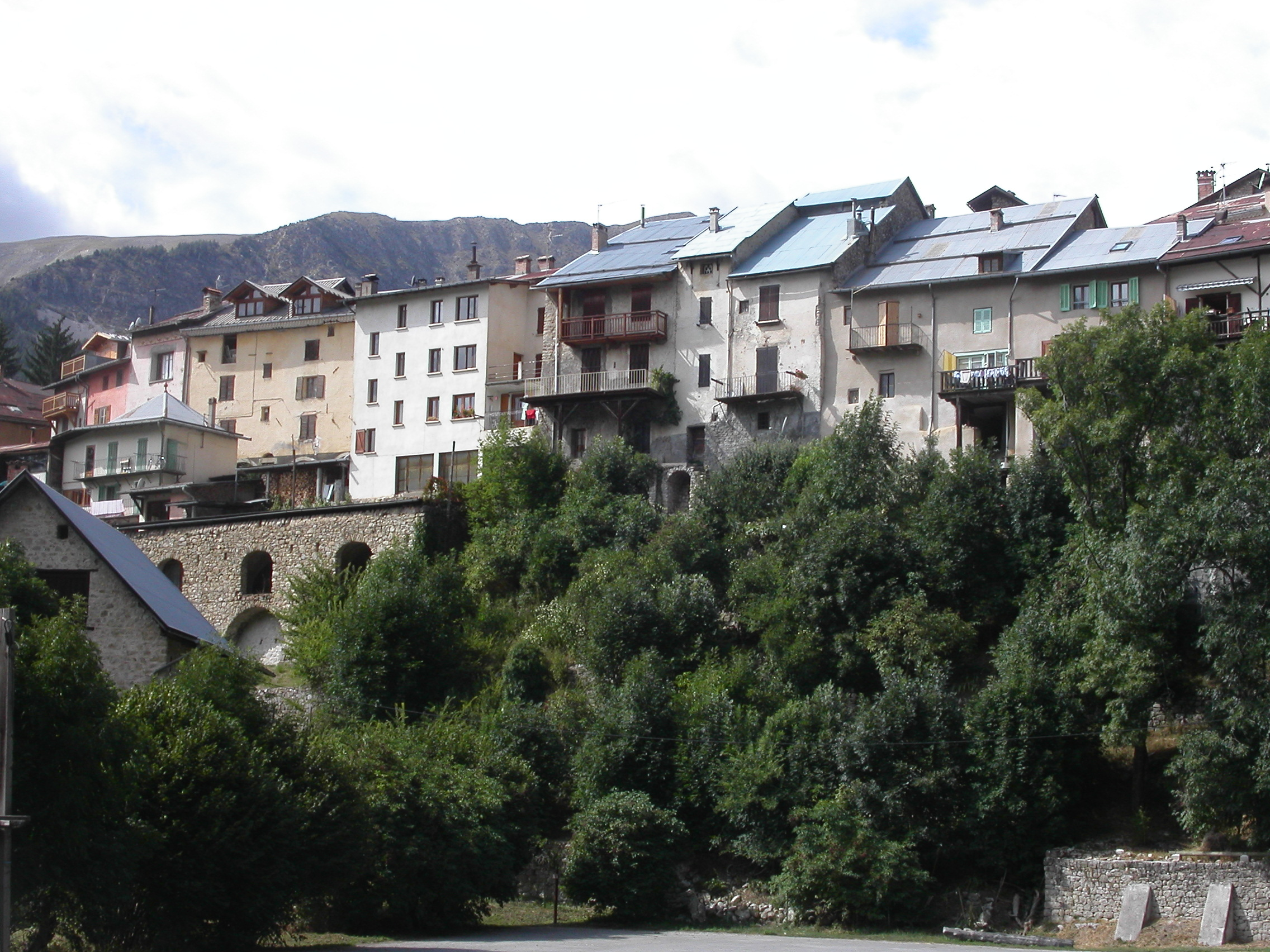 Beauvezer